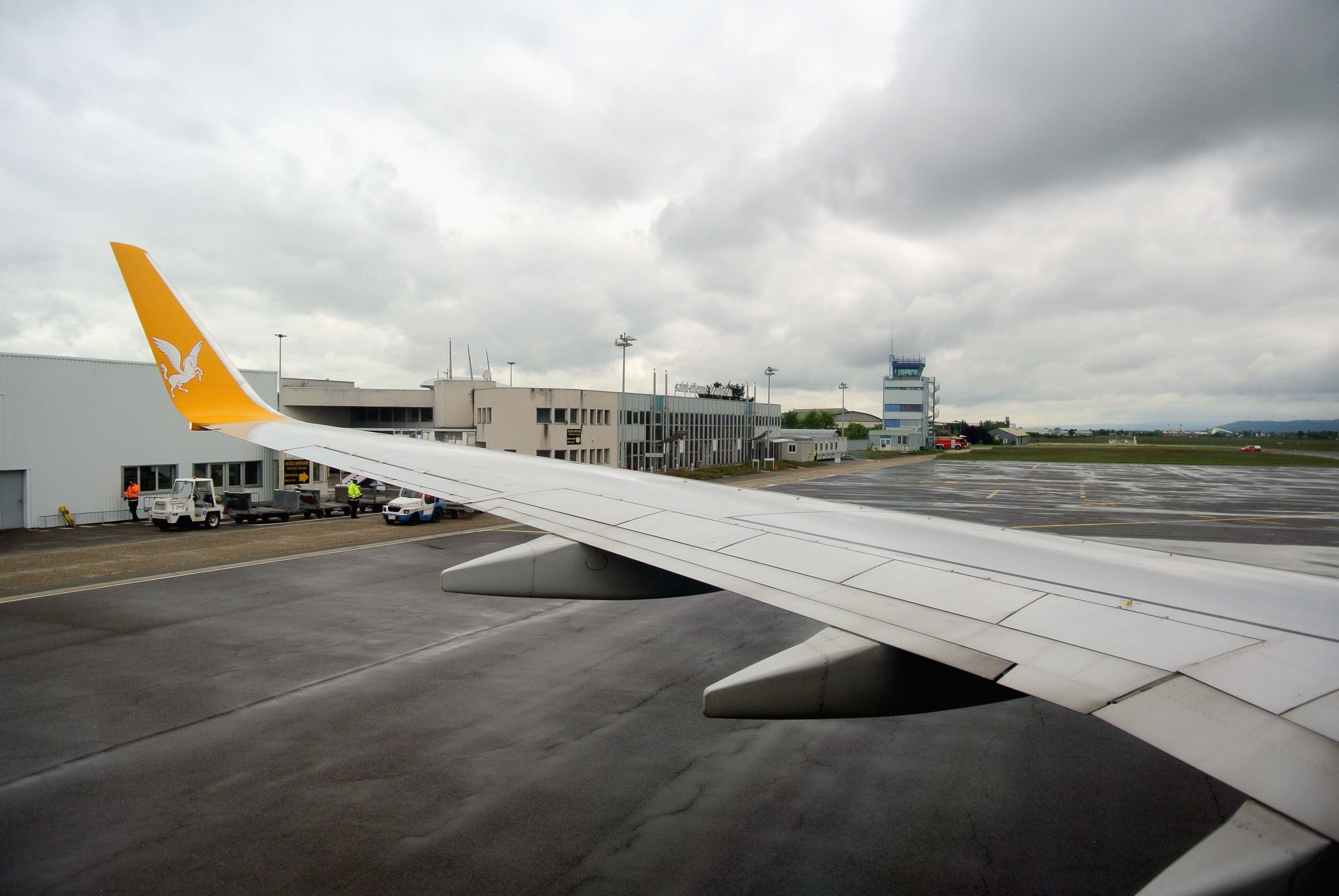 Tarmac at the Saint-Étienne–Bouthéon Airport